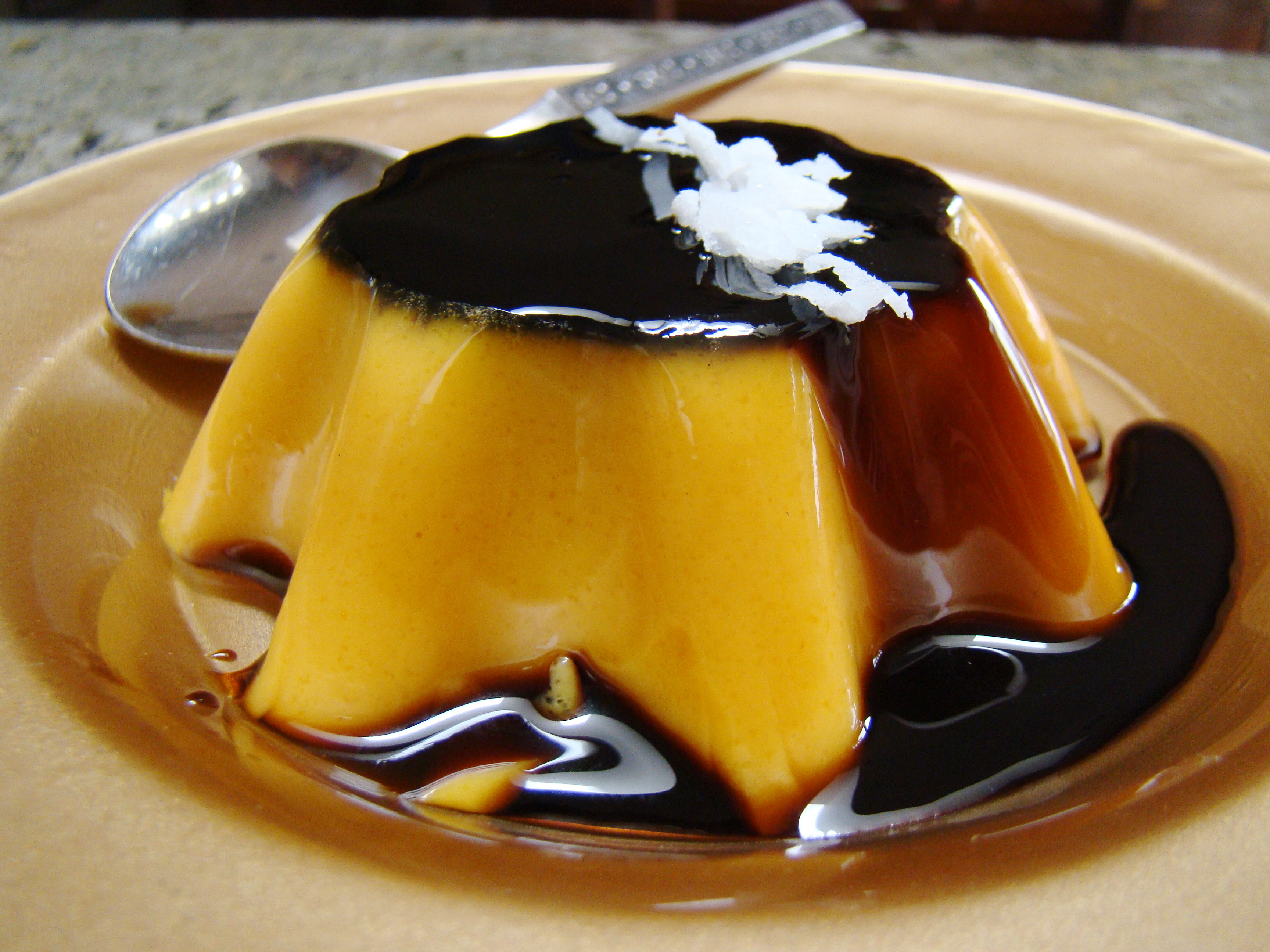 A coconut flan. Caramel Syrup: 5 tablespoons brown sugar 3 tablespoons water Flan: ⅔ cup medium-firm tofu (or use extra-firm silken tofu), crumbled 2 tablespoons raw sugar or white beet sugar 1 tablespoon of the syrup, above ¾ teaspoons coconut extract Pinch of salt 2 ½ cups coconut milk 1 teaspoon agar powder or 2 tablespoons agar flakes For caramel: Bring the water and sugar to a boil in a small saucepan with a heavy bottom, over low heat. Simmer uncovered for 5 minutes. Remove from the heat. Flan: Place tofu, 1 tablespoon of syrup, 2 tablespoons sugar, coconut extract and salt in a blender and process. Set this aside and pour the remaining syrup evenly into the bottom of 6 custard molds. Add the milk and the agar in a saucepan. Bring this quickly to a boil, stirring constantly, then reduce heat and simmer for 5 minutes. Continue stirring. Add this hot milk mixture to the ingredients in the blender and immediately blend it to a smooth cream. Stir down the bubbles. Pour the blended mixture into the dishes, skim off any remaining foam. Refrigerate them until serving time. To unmold the puddings: Dip the bottom of each mold briefly into boiling water, then remove the plastic wrap and turn upside down on a dessert plate. The pudding should slide out easily. Pour any syrup left in the bottom of the mold over the pudding. Garnish with coconut.